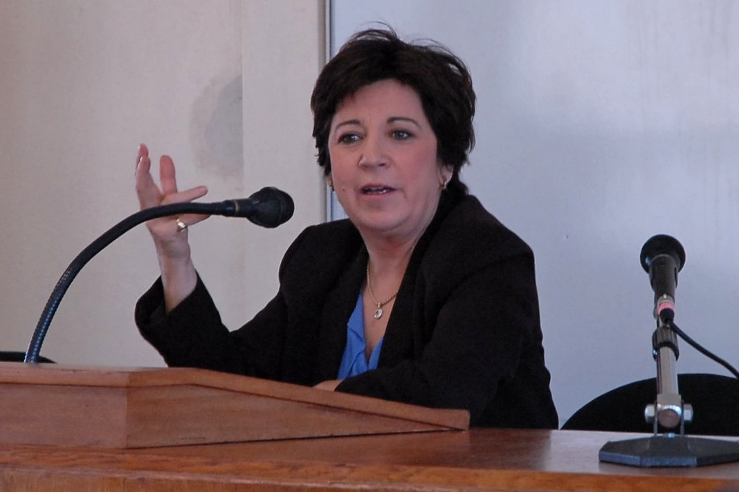 Corinne Lepage giving a talk at IEP Toulouse on 14 february 2007.